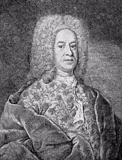 Portrait of Christoph Martin Burchard, German physician in Kiel and Rostock.